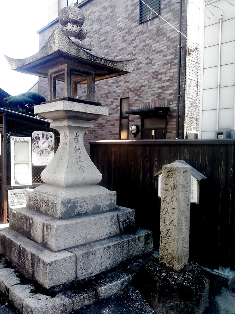 Toro(Street light) and Michi-sirube(Traffic sign) on the Konpira-Orai ave. Matsuosaka, Hayashima, Okayama, Japan.